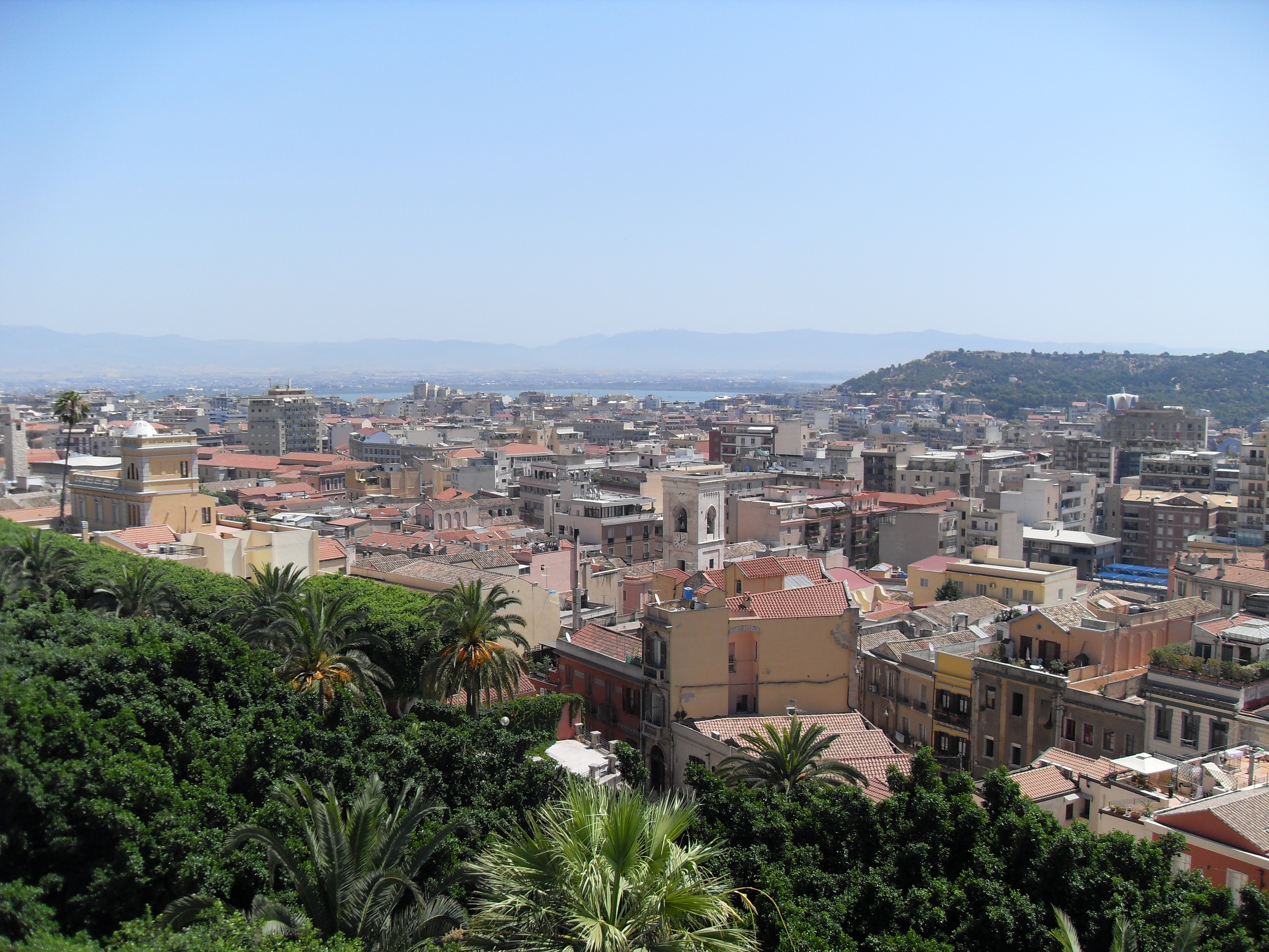 Cagliari from the Old Town